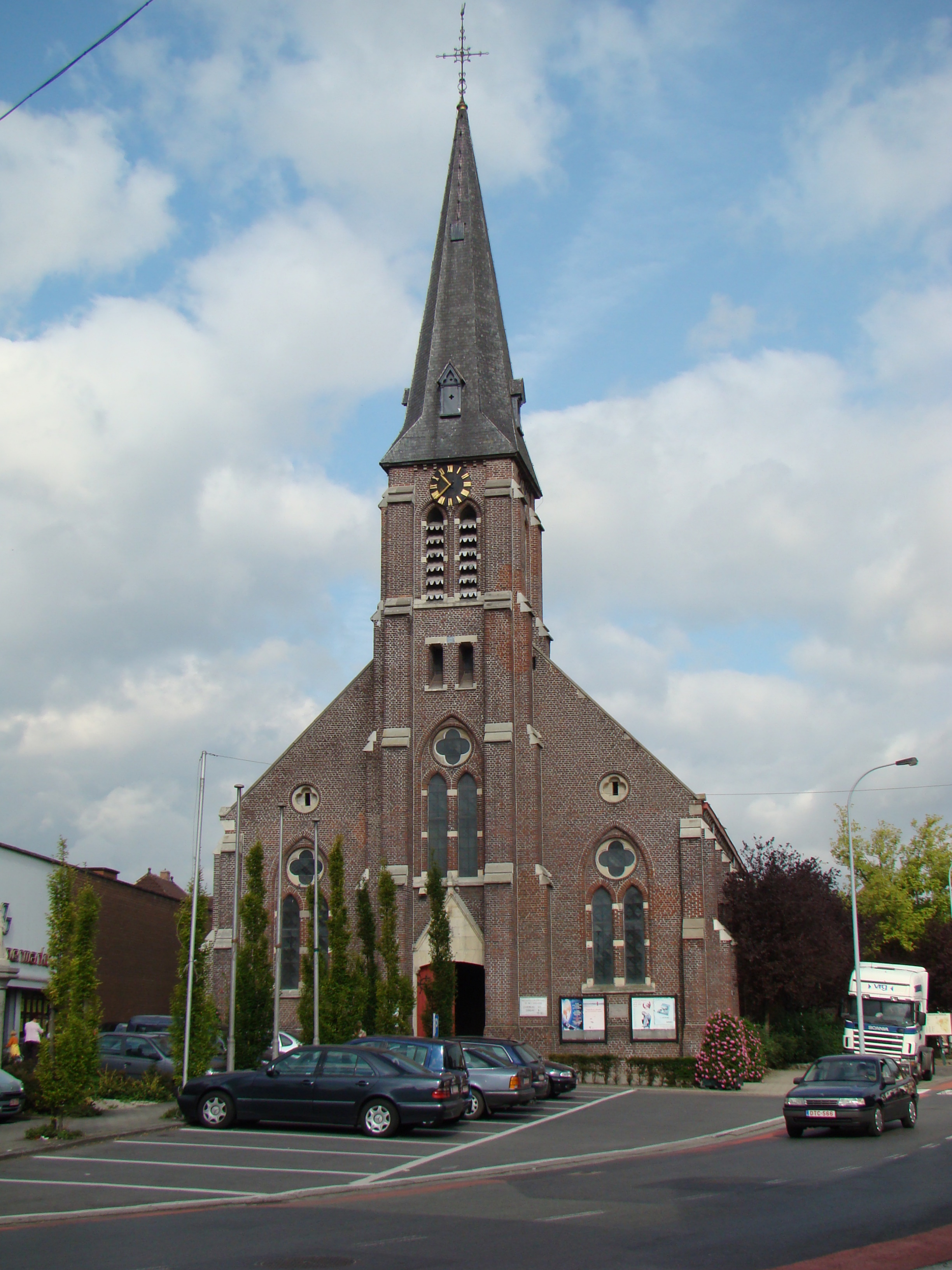 Onze-Lieve-Vrouw Onbevlekt Ontvangen church Sint-Lodewijk (Deerlijk, West Flanders, Belgium)